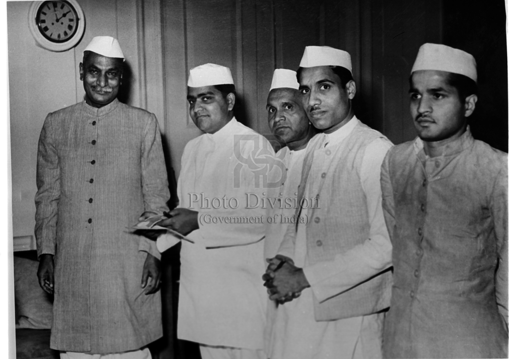 The first President of India with members of the Delhi District Congress Committee (Ward No. 6) when they came to collect donation for providing relief to the East Bengali refugees.